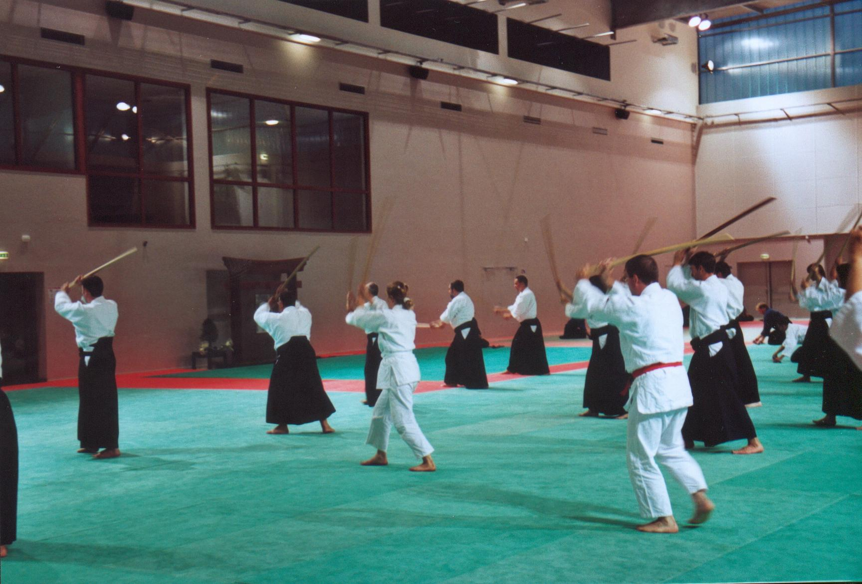 Aikidoka practicing the wooden sword (bokken) at the Lesneven aikido's international training; straight cut (shomen)